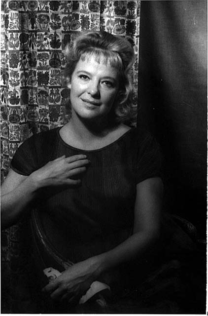 Kim Stanley photo taken by Carl Van Vechten, photographer. Portrait of Kim Stanley